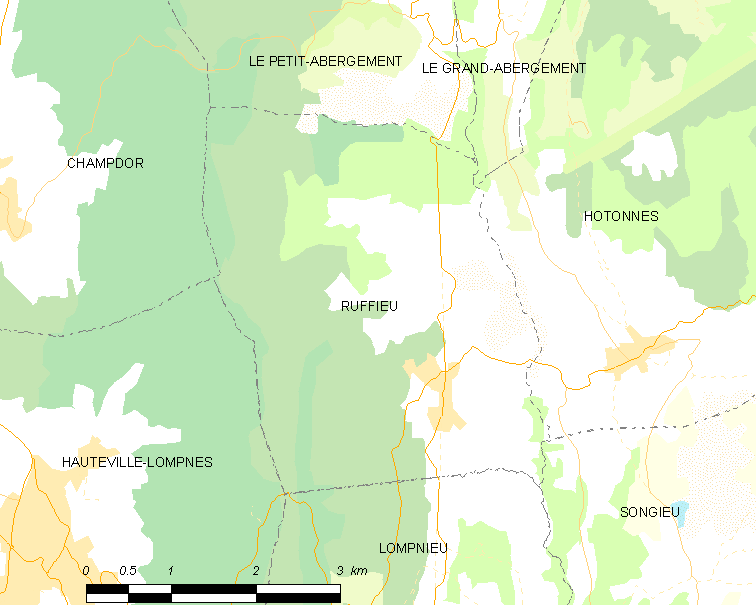 Map of French commune: Ruffieu Map commune FR insee code 01330.png